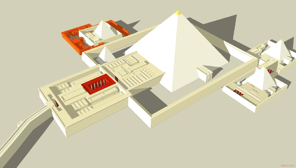 Restoration of the pyramid of Pepi II and his consorts - 6th dynasty of Egypt - Saqqara